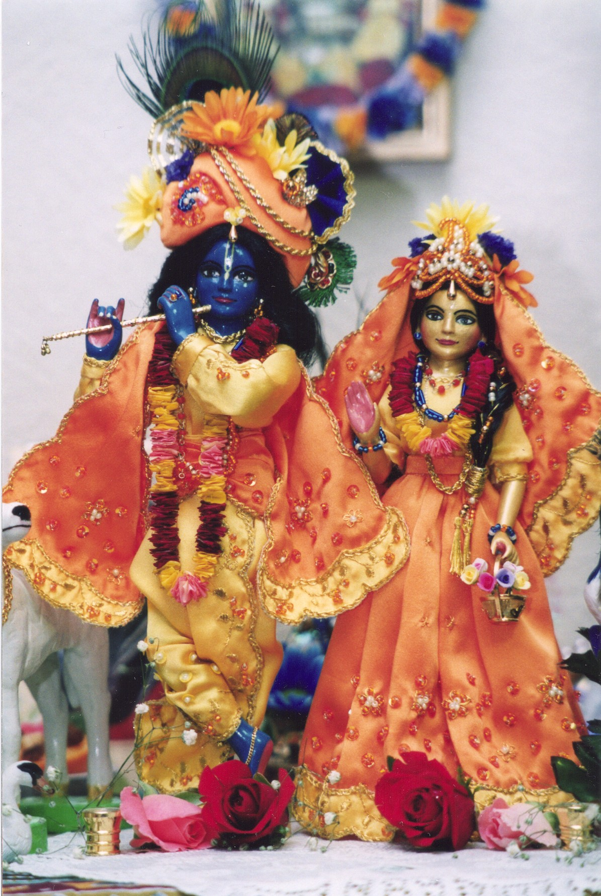 Radha Gokulananda (Radha and Krishna)